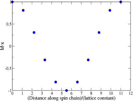 The plot shows the projection of the magnetization of a one-dimensional spin wave onto the interatomic direction as a function of position. The projection onto the magnetic field direction does not vary as a function of position. Equivalently the illustration shows the same projection at a given position as a function of time. The wavelength of the spin wave is eleven times the lattice constant. Created by Alison Chaiken using grace.